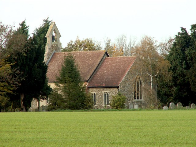 St Mary's parish church, Little Finborough, Suffolk, seen from the southeast